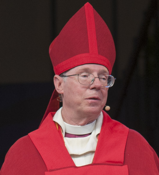 The Rt. Rev. Clifton Daniel, Diocese of East Carolina, was Bishop Presiding at the consecration.